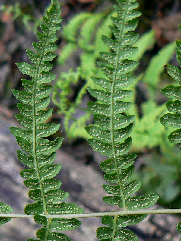 Thelypteris palustris, Brasschaat, Belgium. Detail of sorii